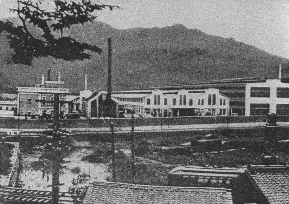 Mori-machi Plant of Mitsubishi Heavy Industries Nagasaki Arms Factory.